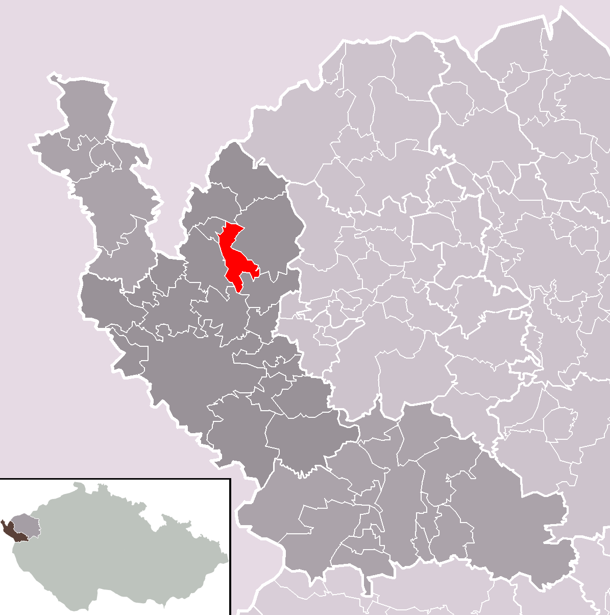 Location of Křižovatka municipality within Cheb District and administrative area of Cheb as a Municipality with Extended Competence.